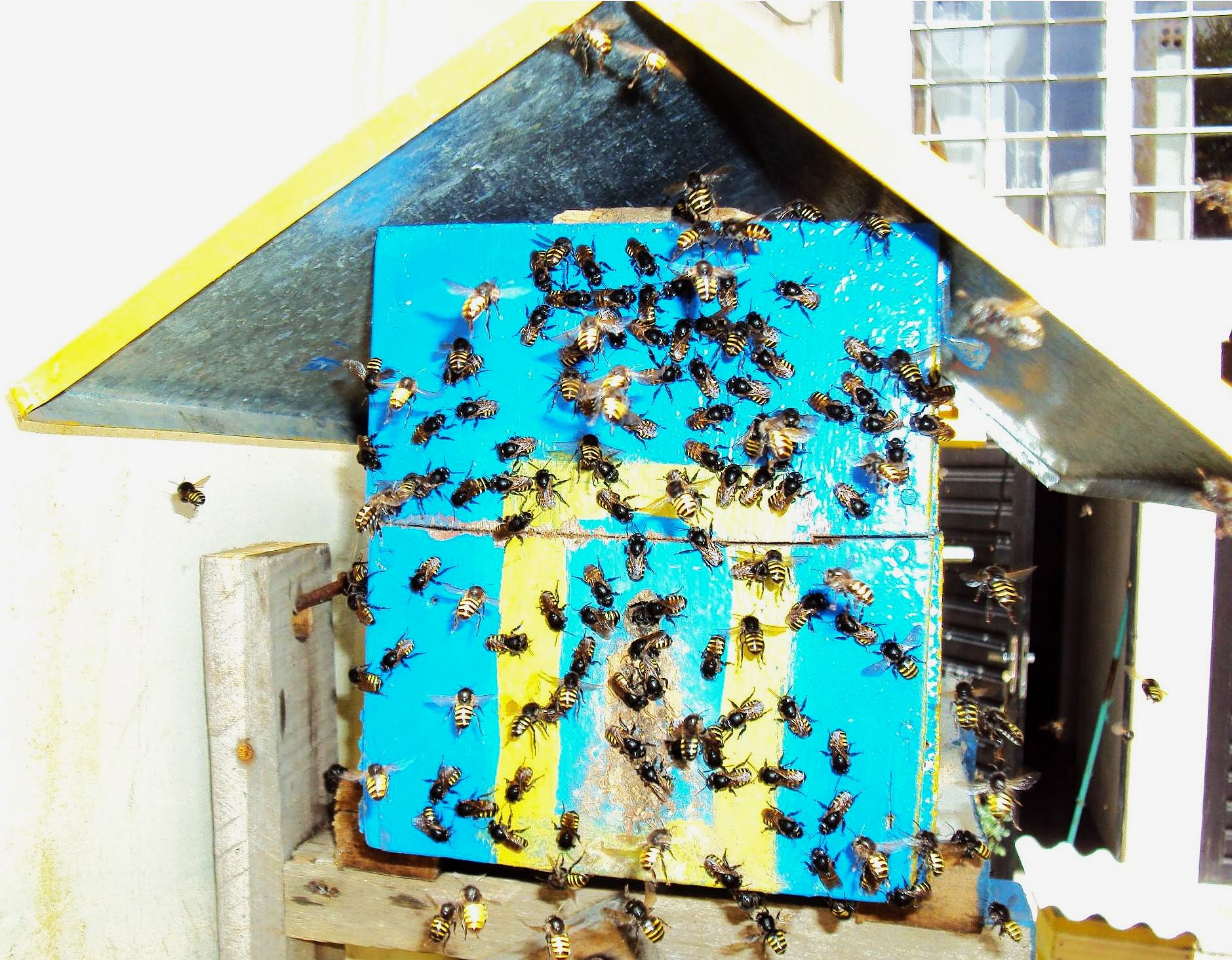 Swarm of mandaçaia bees in an artificial hive installed in the backyard of a residence in Saltinho Mafra - SC - Brazil